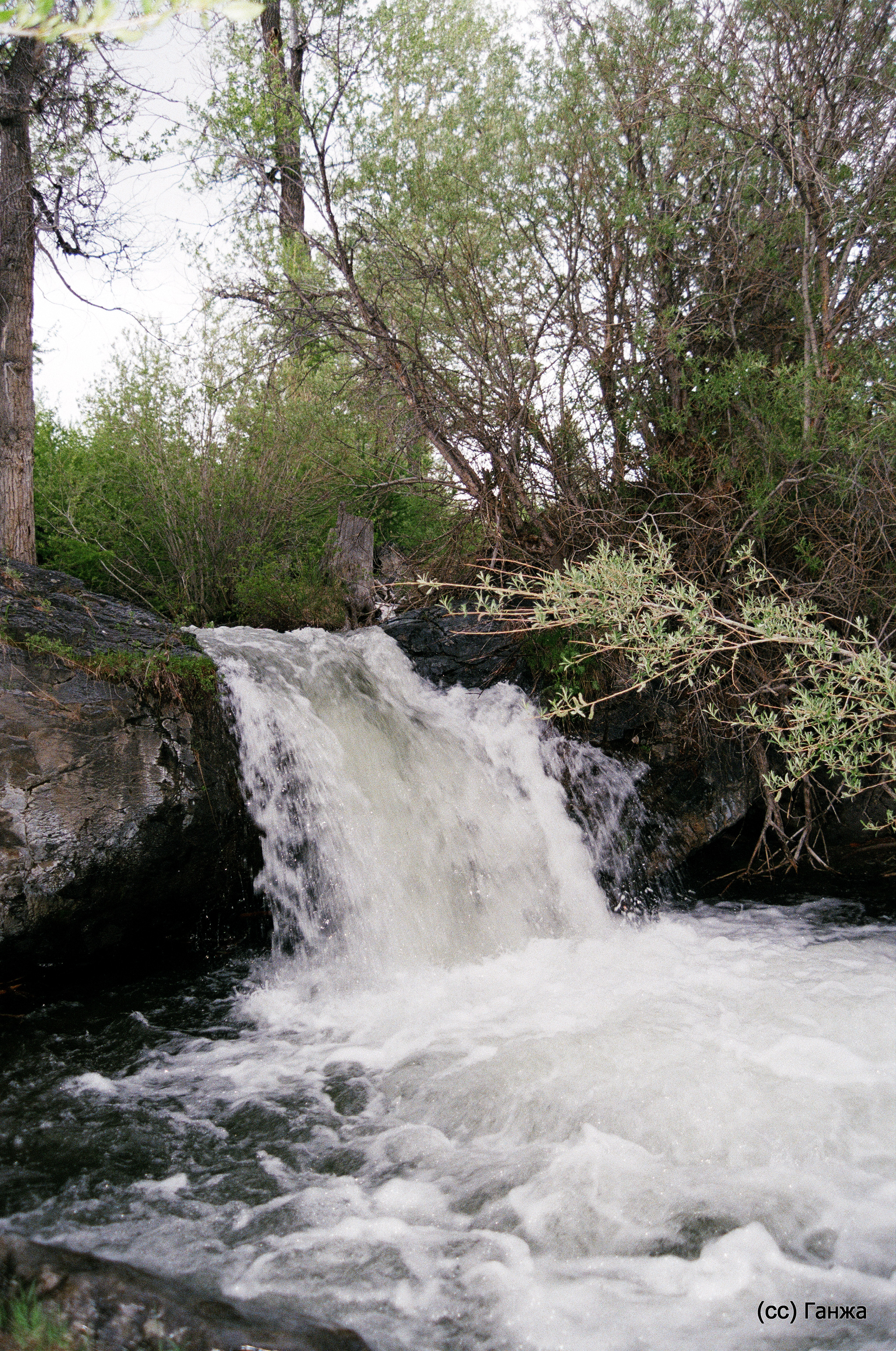 Tydtugem waterfall